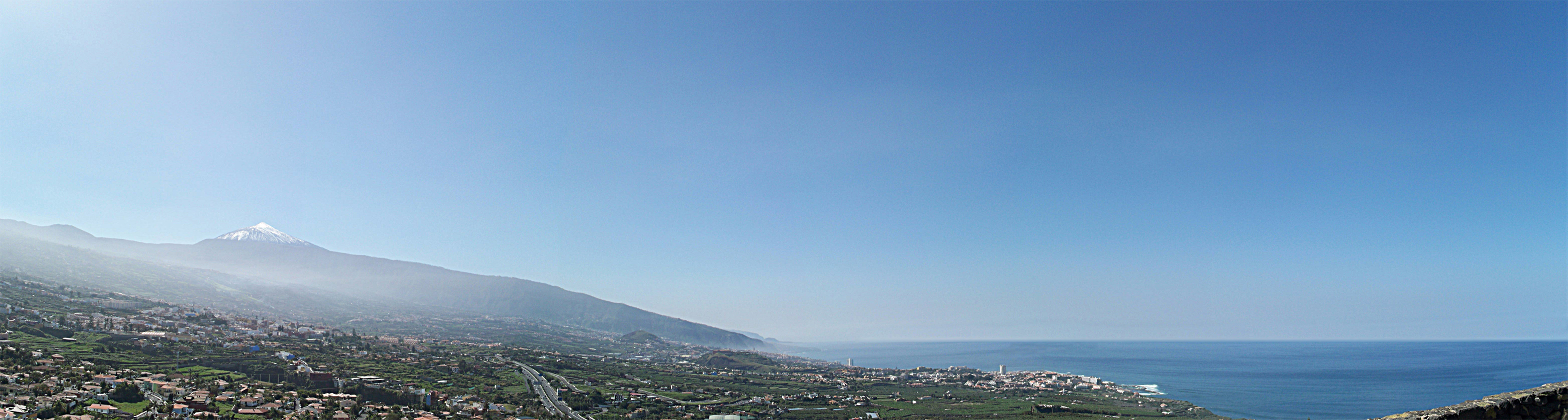 General view of Valle de La Orotava